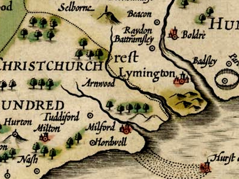 The manor of Arnwood and the town of Lymington on John Speed's 1611 map of Hampshire. "Arnwood" is the setting for Frederick Marryat's 1847 children's novel The Children of the New Forest.